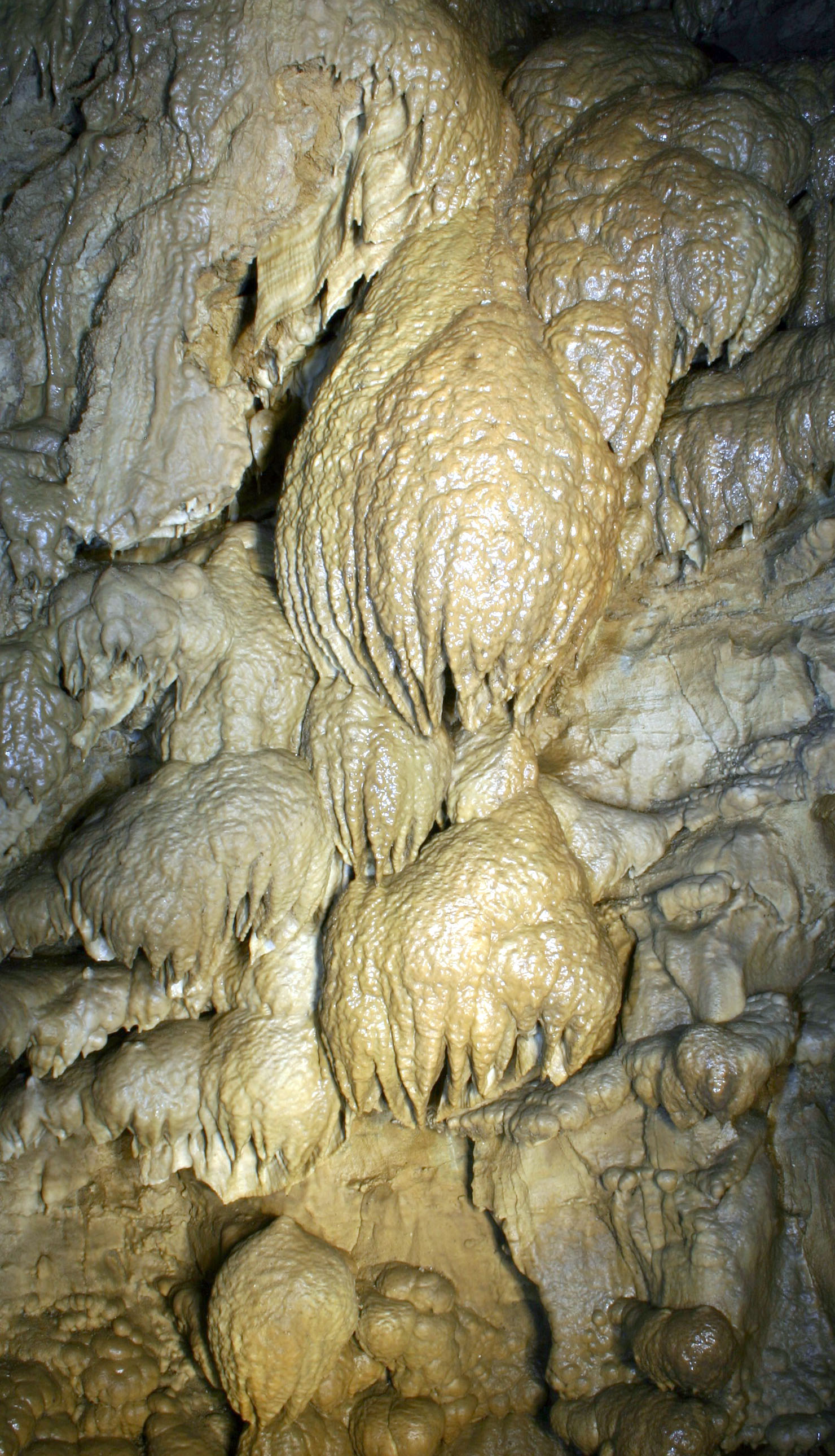 paradise lost formation in Oregon Caves National Monument